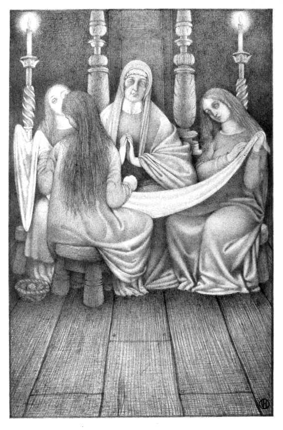 Vernon Hill's illustration of folk ballad "Lord Thomas and Fair Annette" from 1912 book Ballads Weird and Wonderful by Richard Chope.